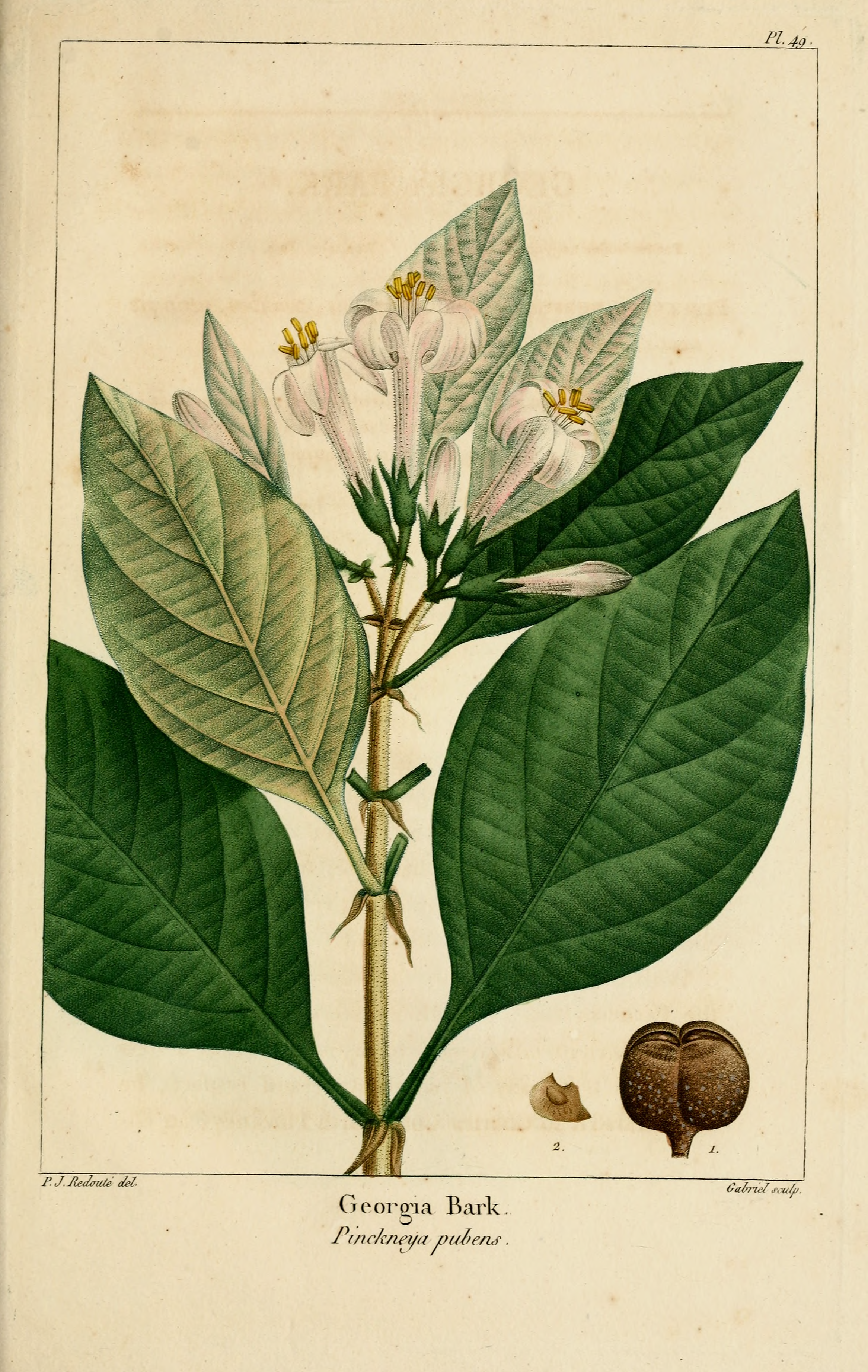 Plate from The North American sylva